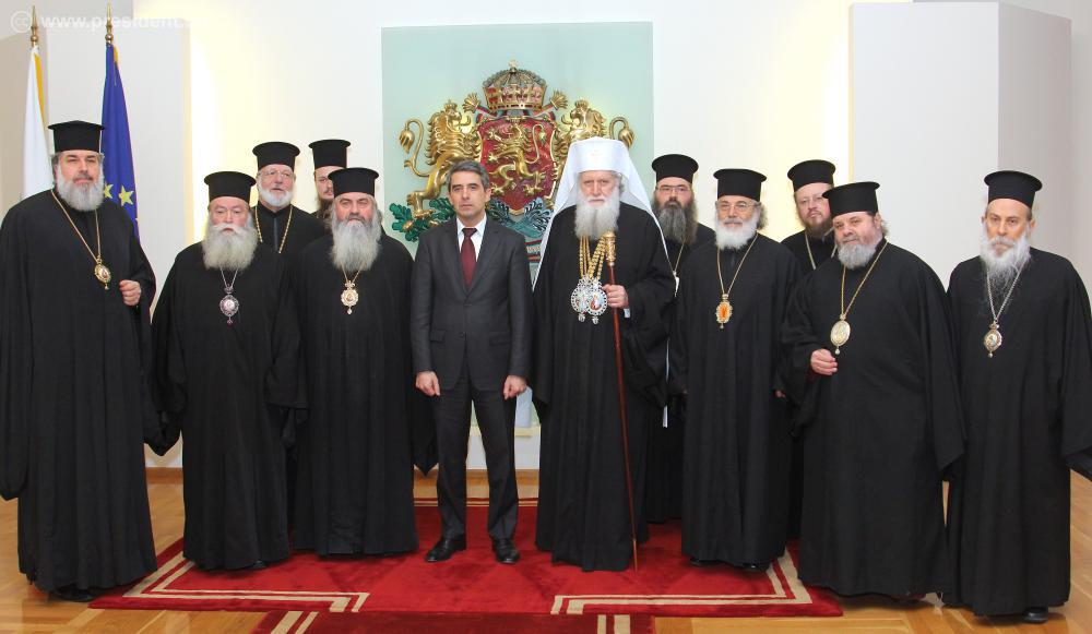 Rosen Plevneliev with members of the Holy Synod of Bulgarian Orthodox Church